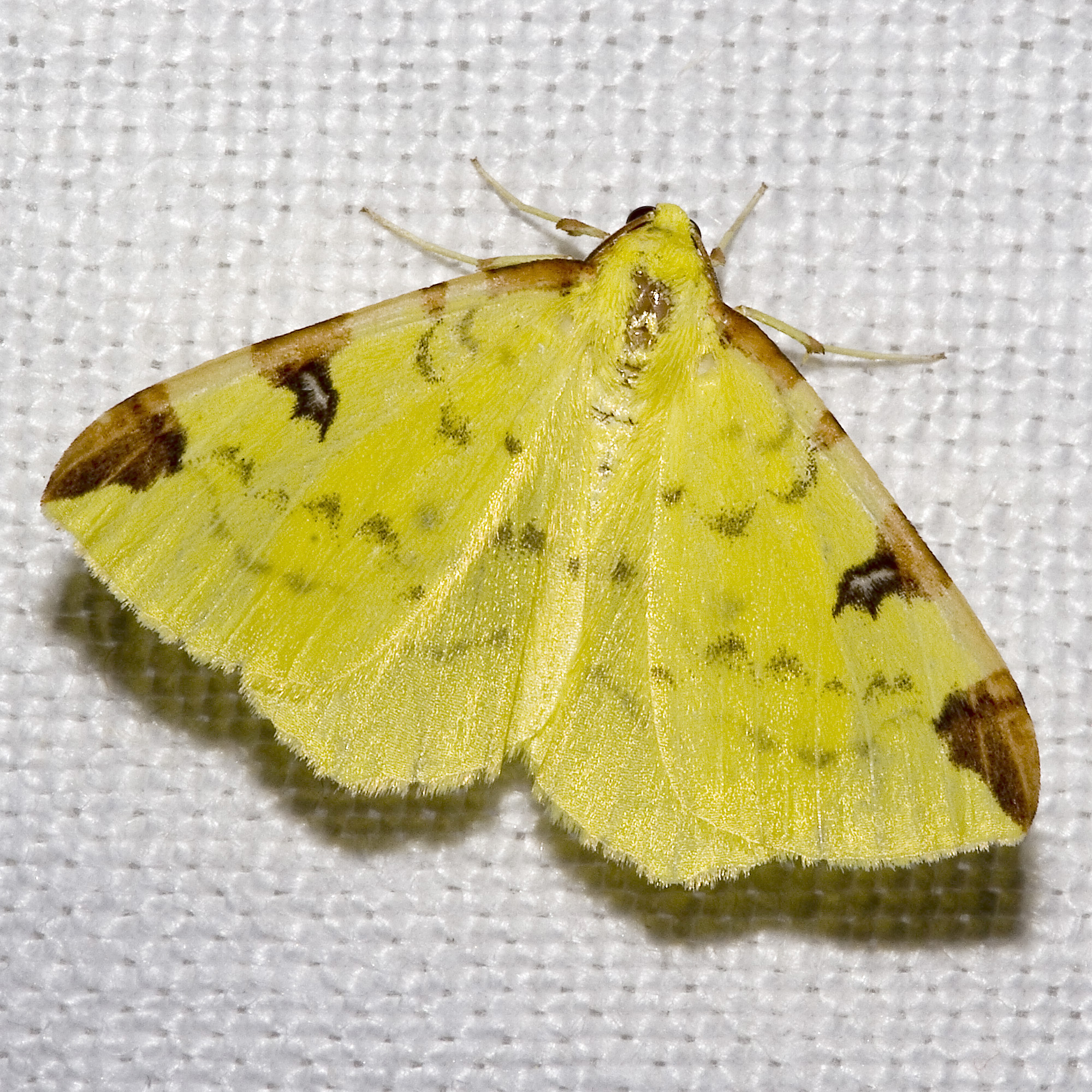 Brimstone